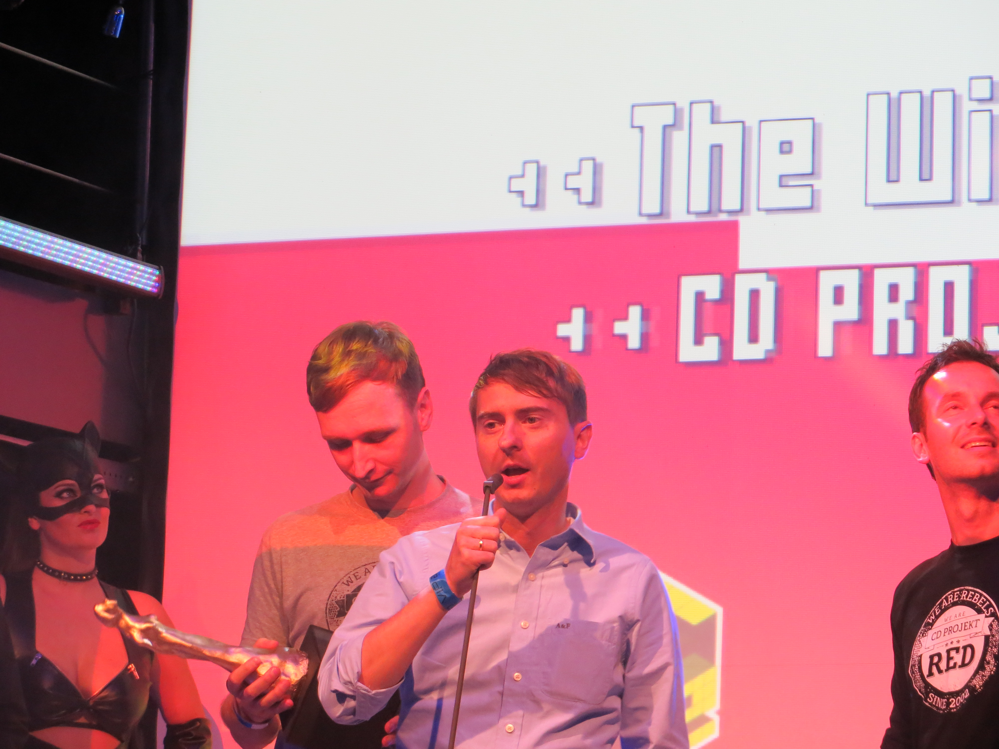 Taken on August 14, 2012 Humboldtkolonie, Cologne, NW, DE Canon PowerShot SX260 HS